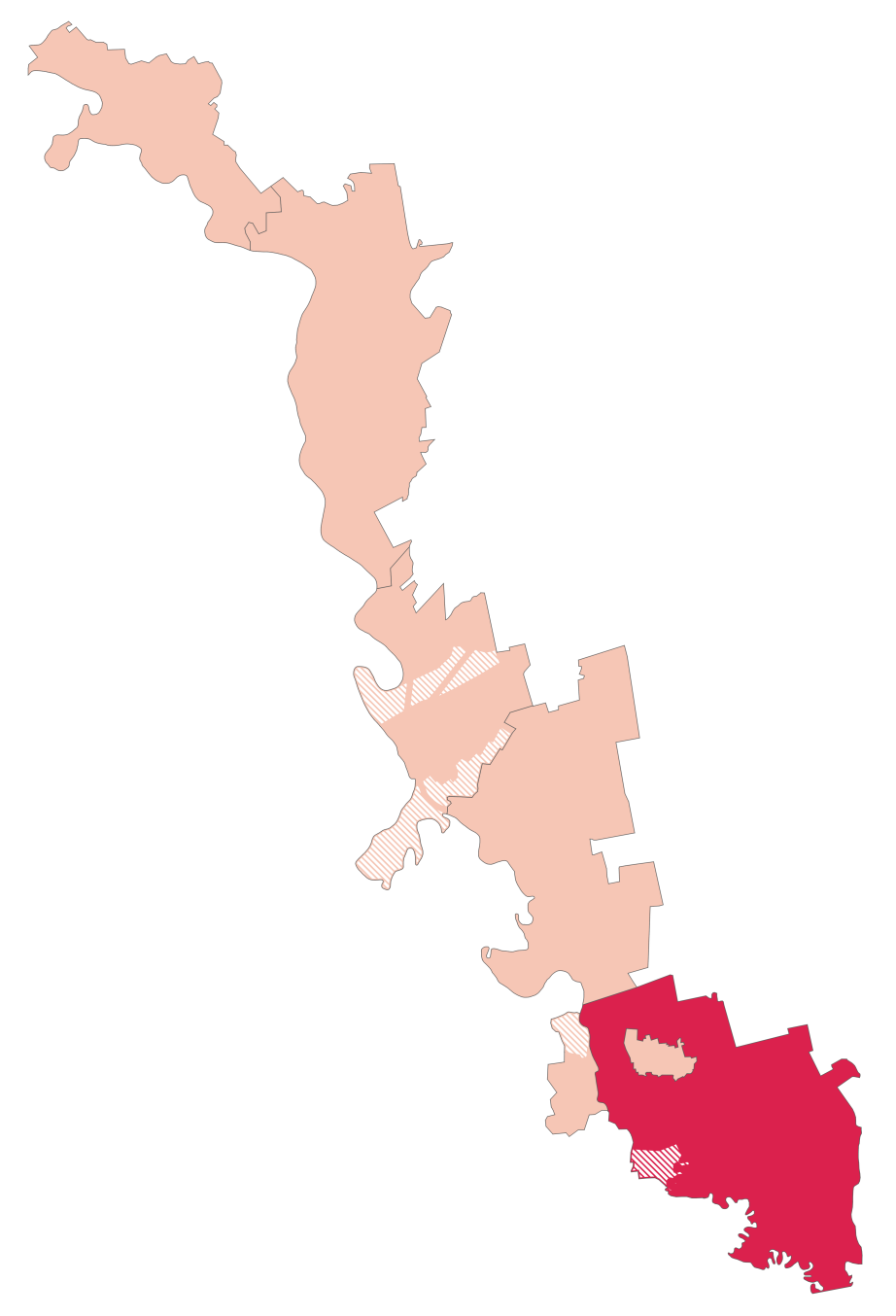 Raions of Transnistria: Slobozia